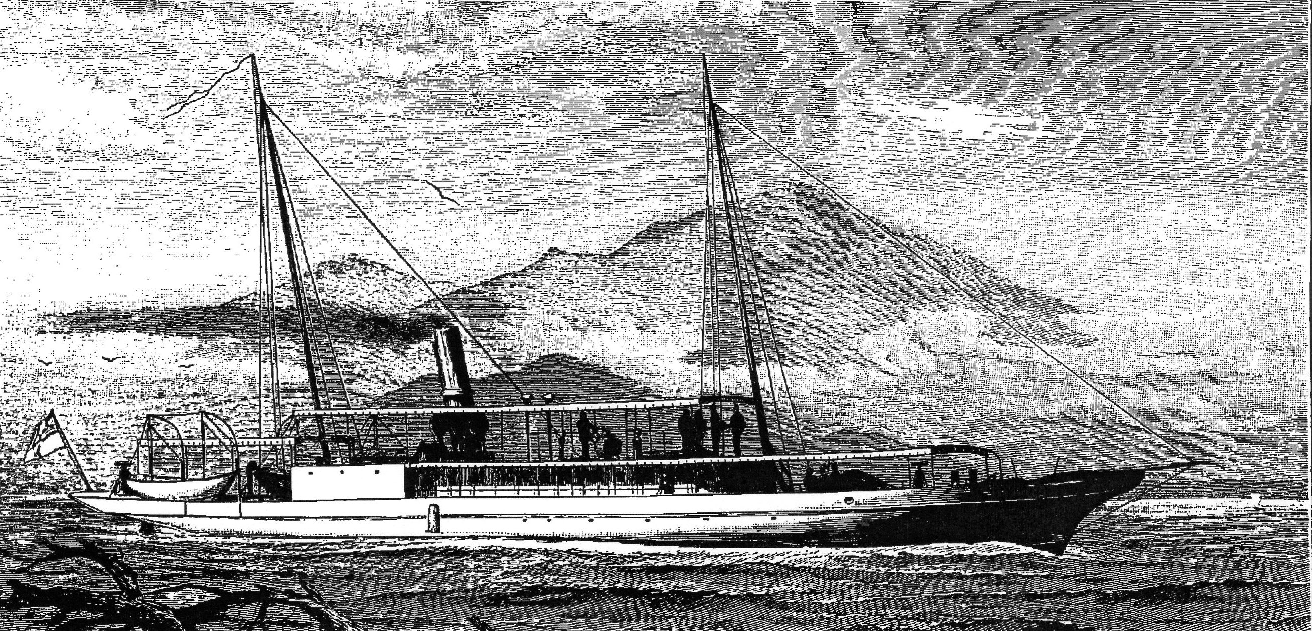 German government steamer NACHTIGAL. Built in 1885. From 1886 to 1895 government service in the German colony Cameroon. In 1895 renamed KAMERUN, then in service until 1901. Sold to an unknown owner.